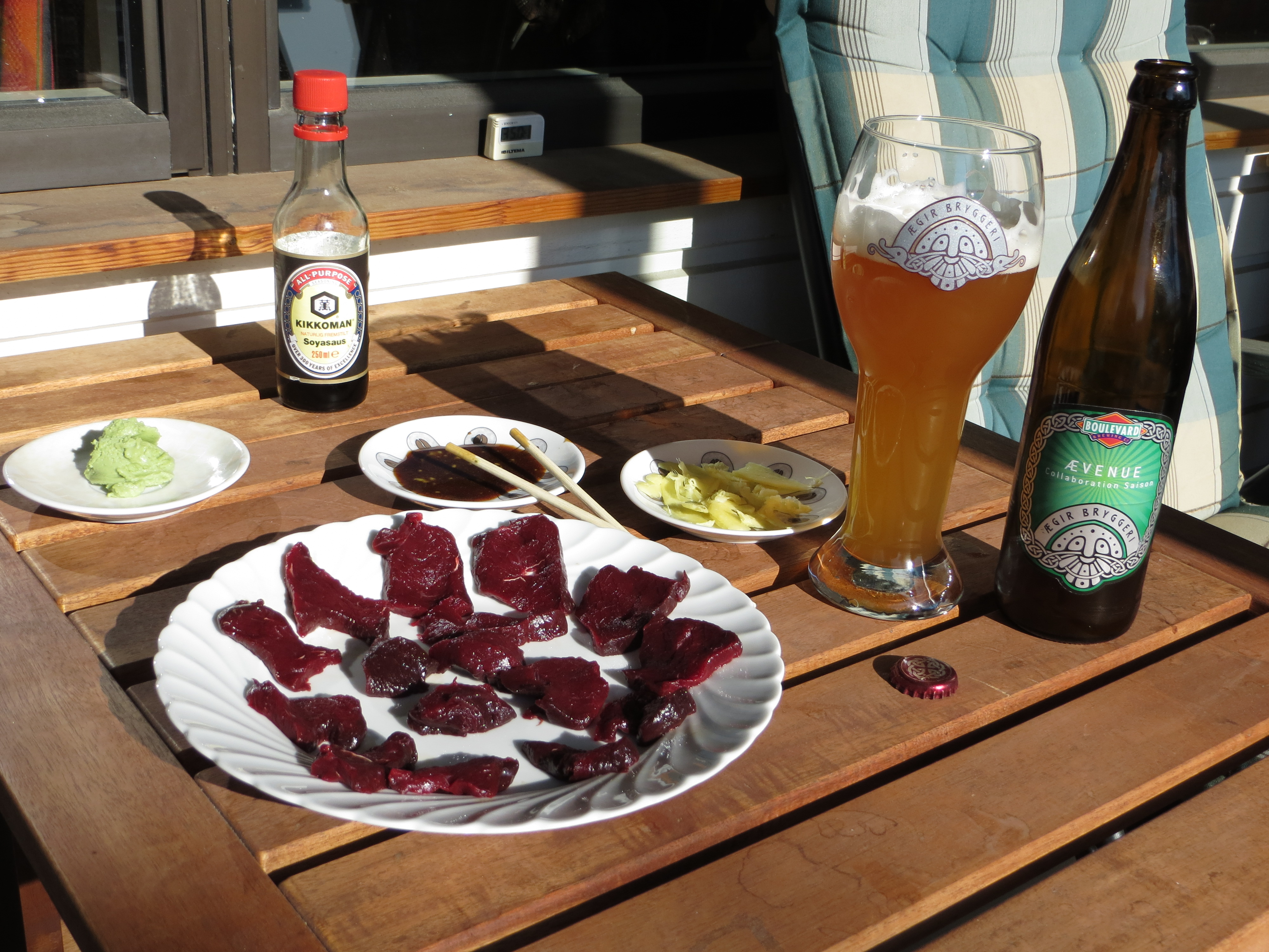 Homemade Whale sashimi (Whale meat). at Norway. and Japanese Shoyu (Soy sauce), by Kikkoman co.